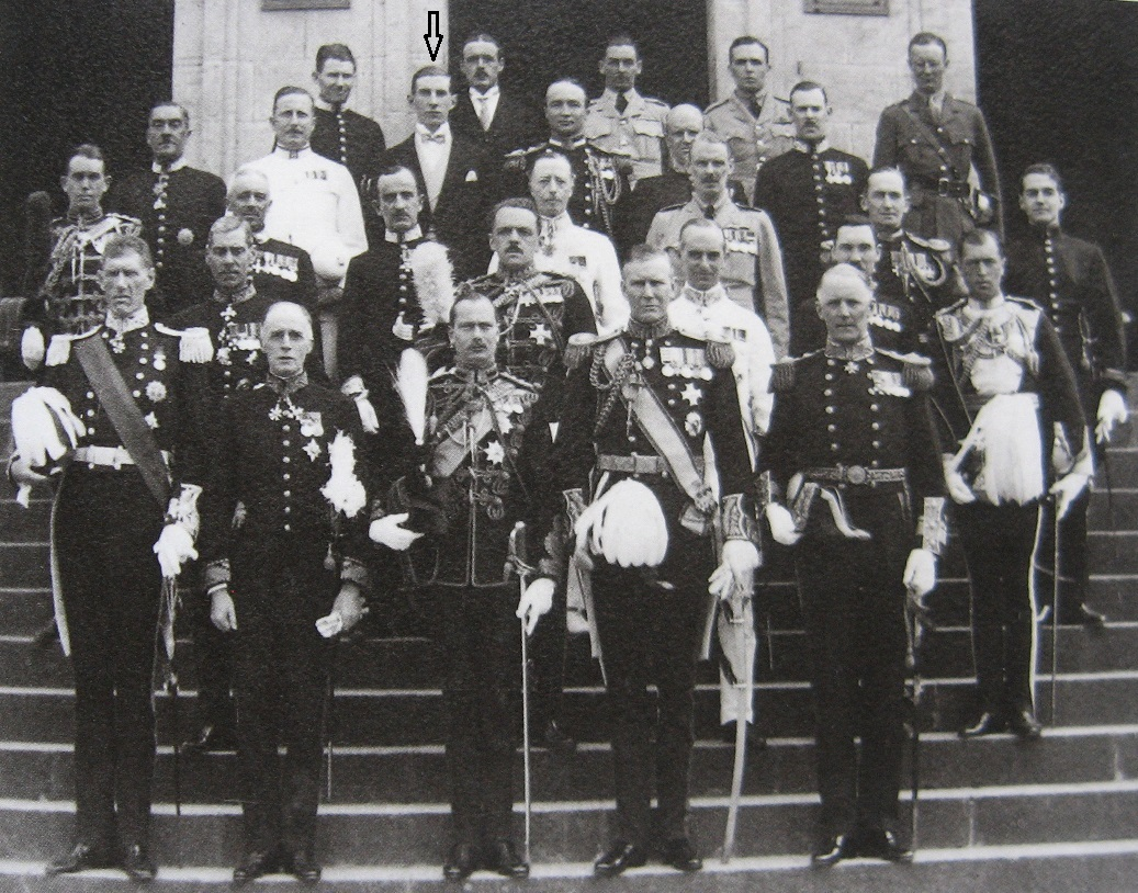 Photograph showing the members of the delegation sent to represent the British government at the coronation of Haile Selassie as emperor of Ethiopia in 1930. The delegates are standing on the steps of the British Legation in Addis Ababa. Front row, from left to right: Sir H. Kittermaster, Governor of Somaliland; Sir S. Barton, Minister Plenipotentiary to Ethiopia; the Duke of Gloucester, Head of the delegation; Sir J. Maffey, Governor-General of the Sudan; Admiral Fullerton, East Indies Station, Royal Navy. Standing behind Kittermaster and Barton is the Resident at Aden, Sir Stewart Symes. Young Wilfred Thesiger, who had been invited by Selassie to attend the event, is standing in the 4th row (arrow). Thesiger was born in Addis Ababa where his father was then the British Minister.